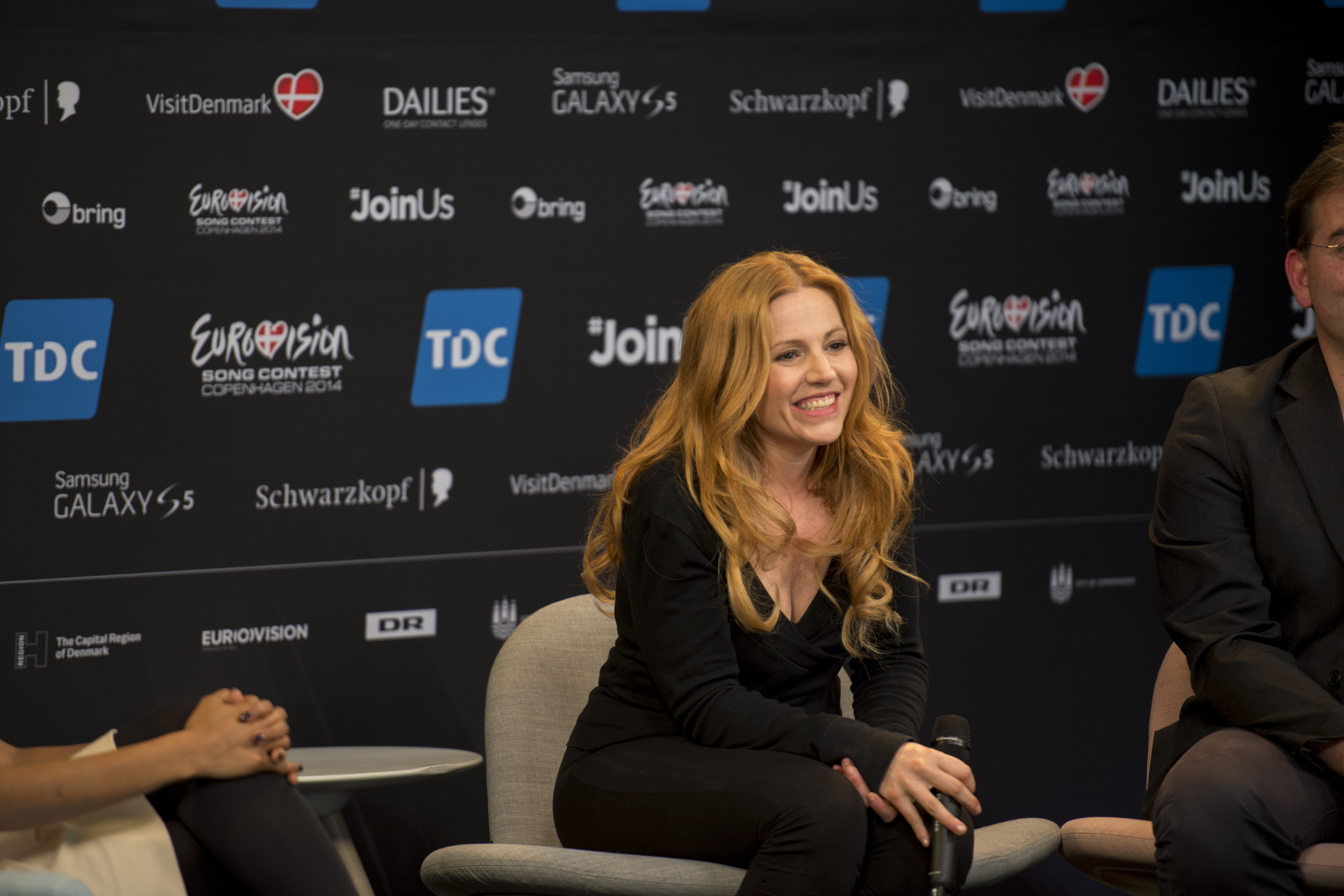 Valentina Monetta at a Meet & Greet during the Eurovision Song Contest 2014 Copenhagen. (Help translate this text)